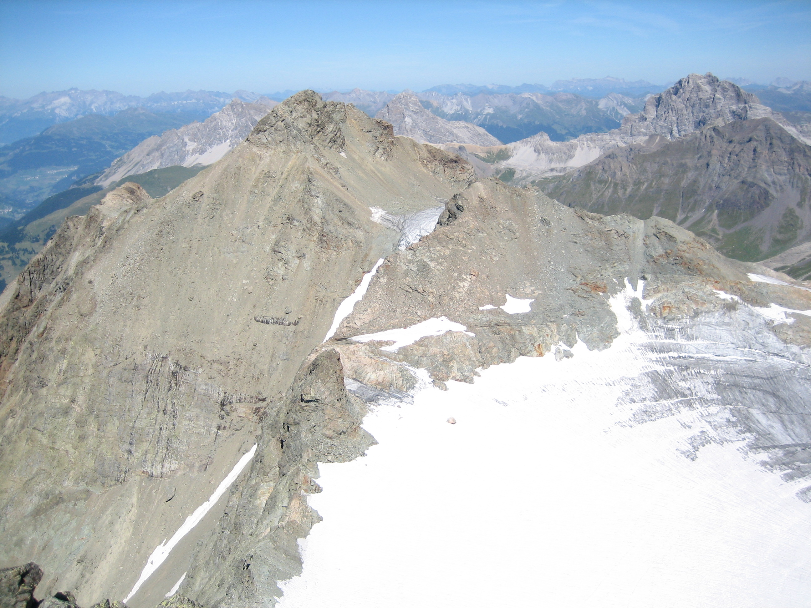 Piz d'Err from Piz Calderas, Sur, Bever, Mulegns, Grison, Switzerland